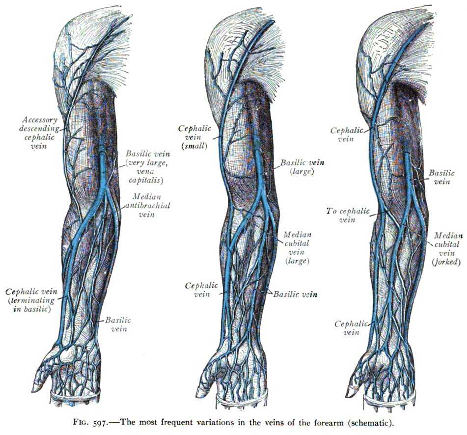 An anatomical illustration from Sobotta's Human Anatomy 1908